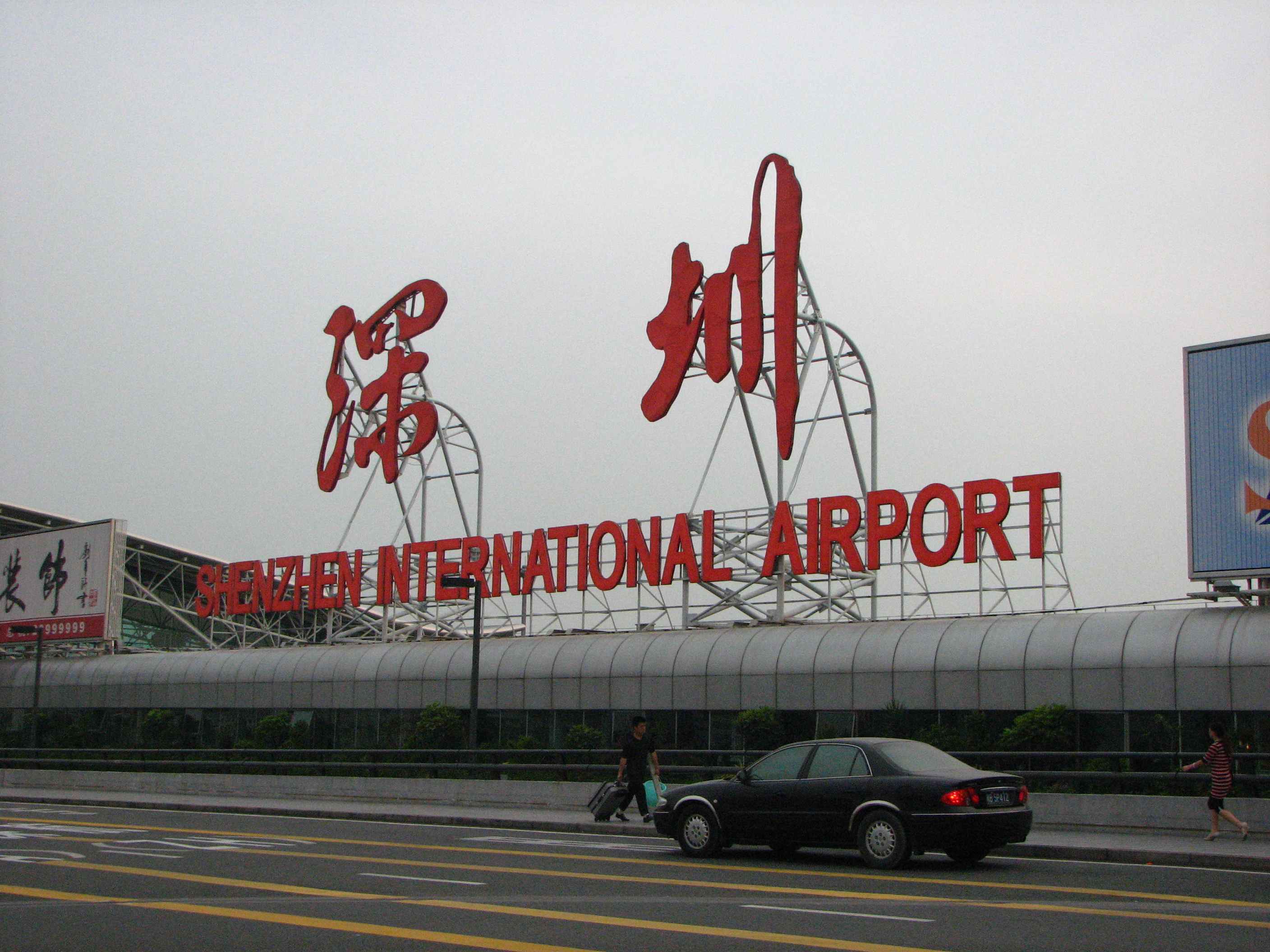 Frontside of Shenzhen Airport